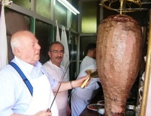 The Döner Master Cemil Çalışır carving the Döner Kebap with wood fire., pictured by Hakkı Arıkan